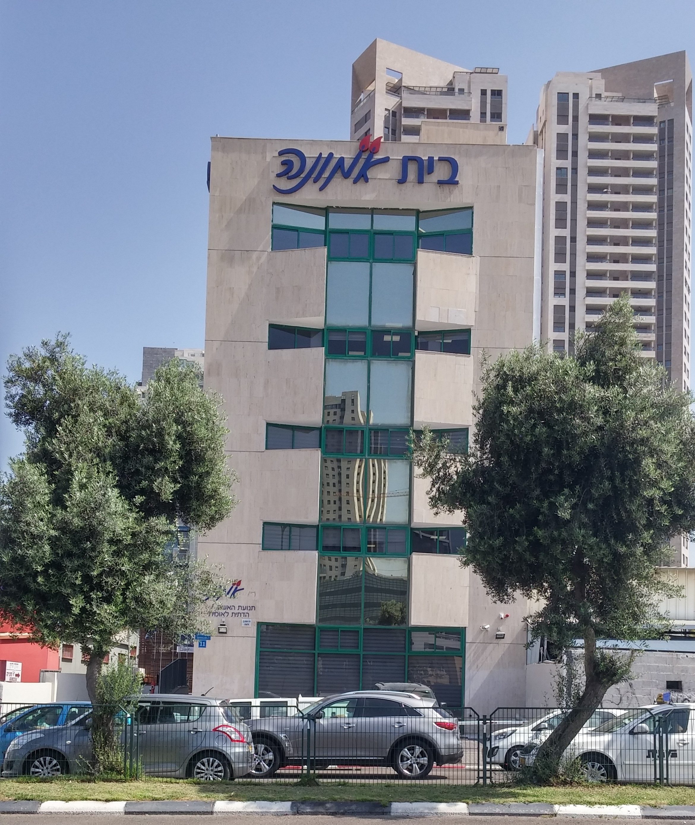 Emuna house, Tel Aviv